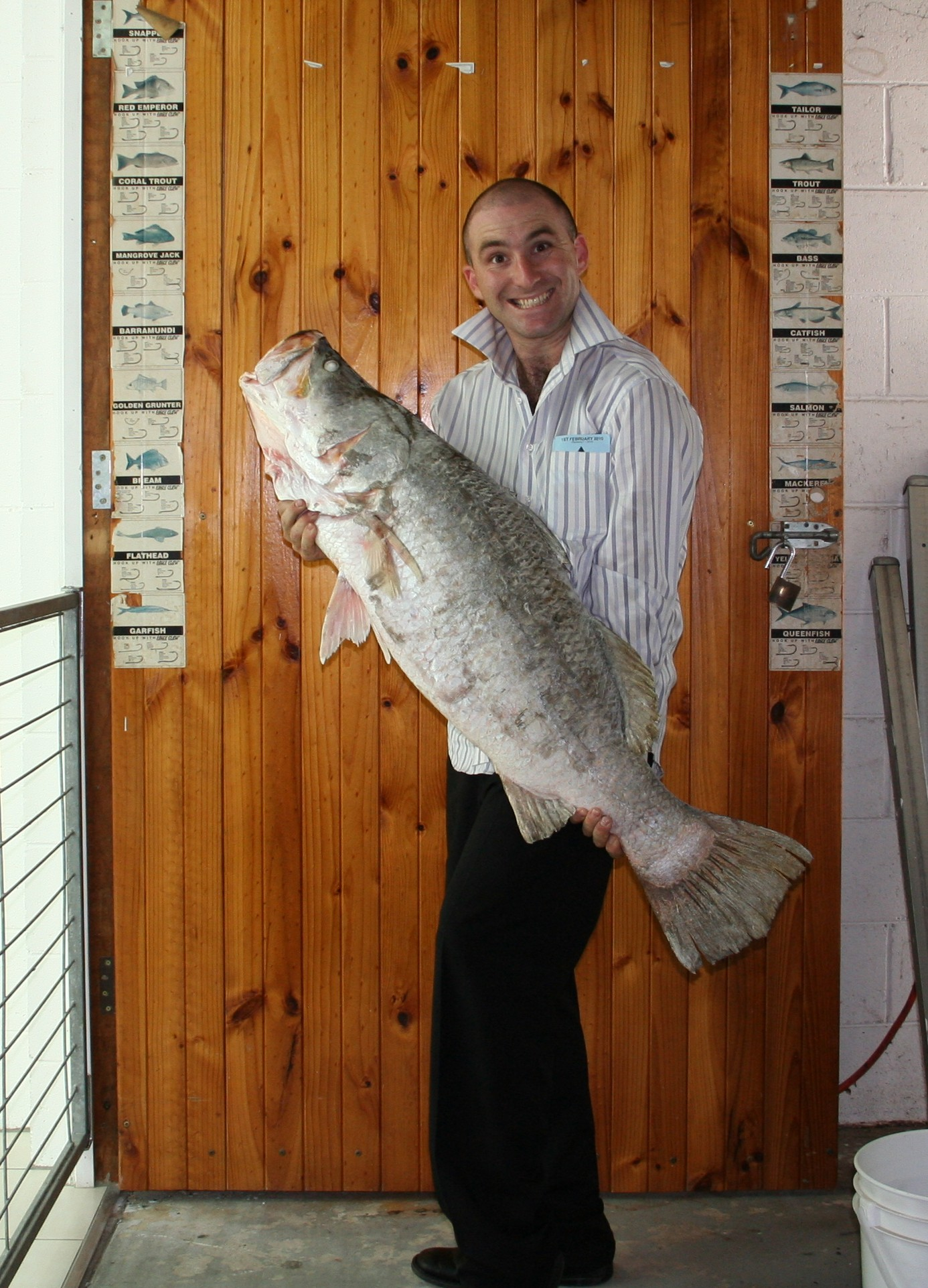 Lates calcarifer You wish you were here